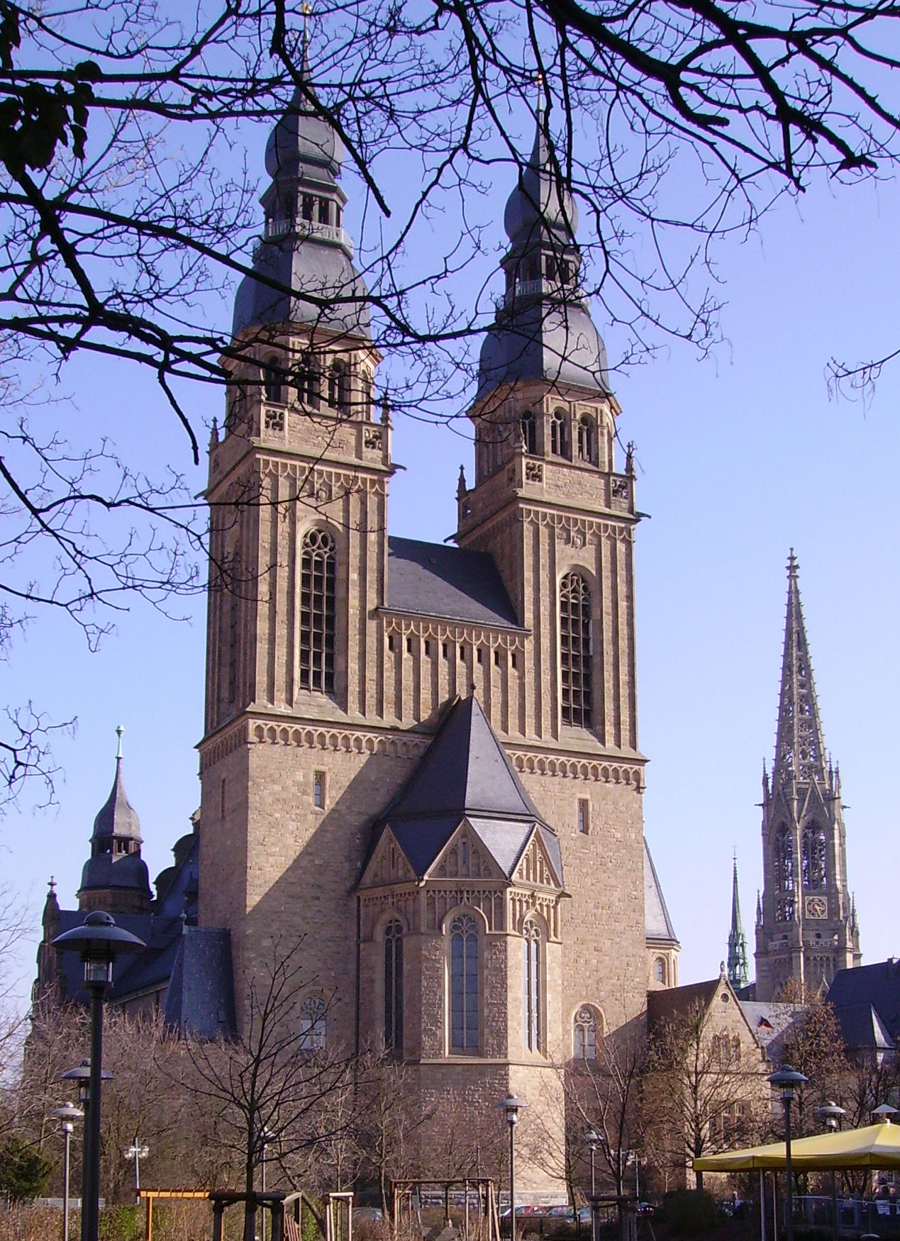 Josephskirche + Gedächtniskirche in Speyer, Germany